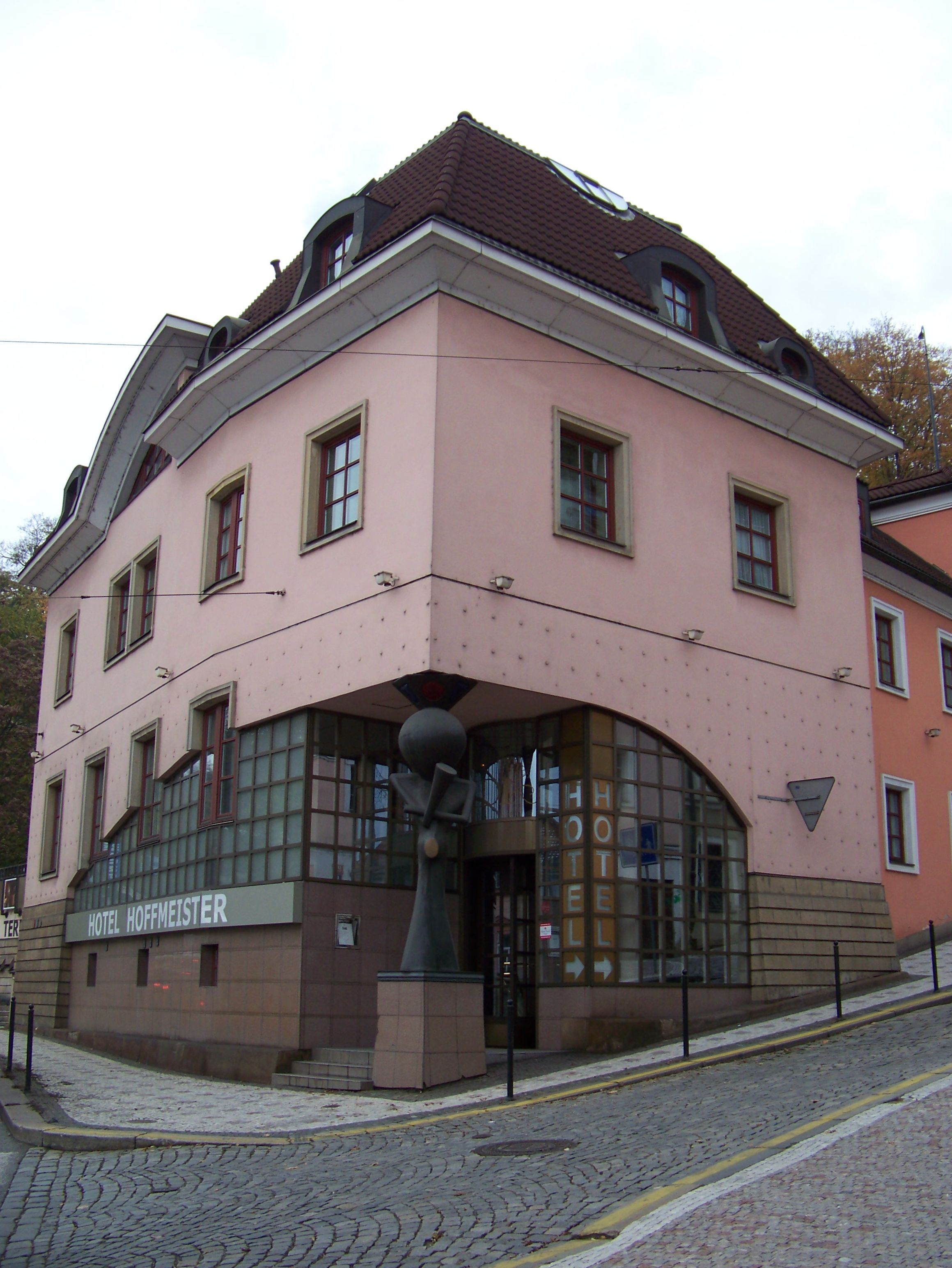 Prague-Malá Strana, the Czech Republic. hotel Hoffmeister, Chotkova 144/2, Pod Bruskou 144/7. - OpenStreetMap(Info)